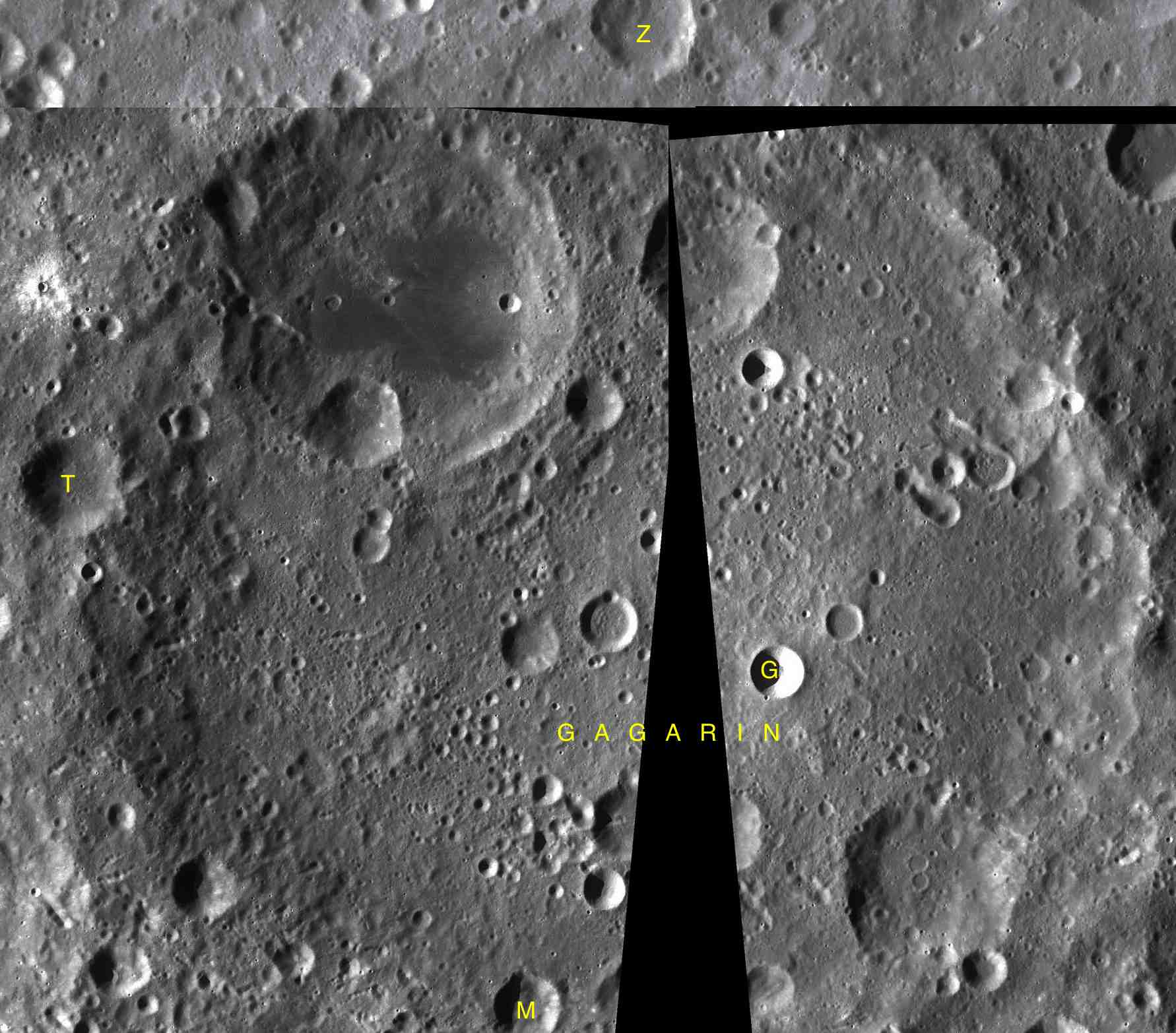 Parts of the charts LAC-84, LAC-85, LAC-102, LAC-103 used for the presentation